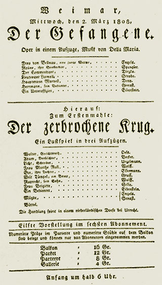 Playbill announcing Goethe's premiere of "The Broken Jug" by Heinrich von Kleist. Court Theater Weimar, March 2, 1808